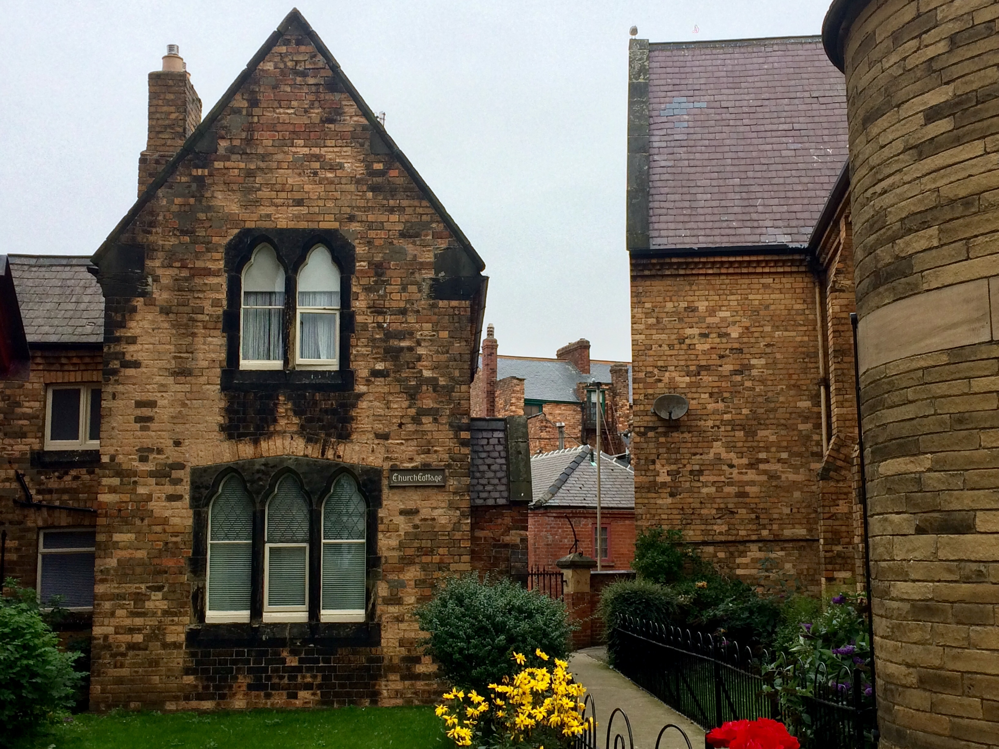 Albemarle Baptist Church Cottage Wikidata has entry Q26536355 with data related to this item.